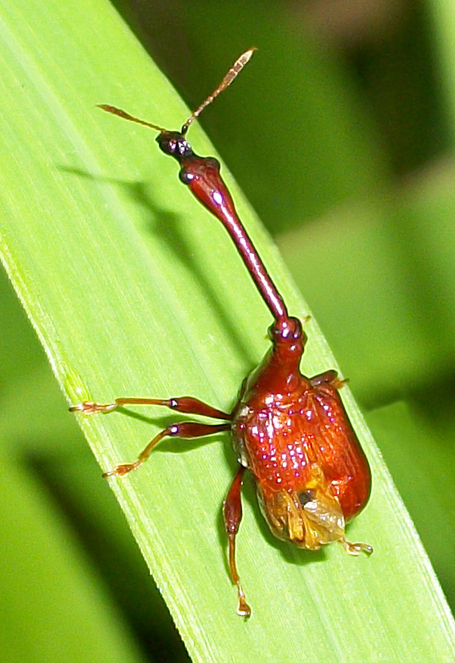 Giraffe Weevil At Mangaon, MH, India.